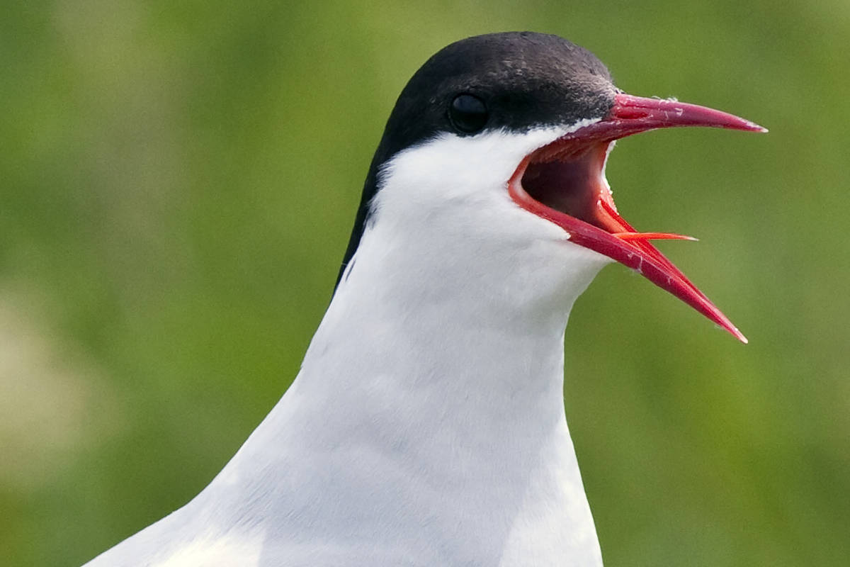 Arctic tern (Sterna paradisaea), Petit Manan Island, Maine Coastal Islands National Wildlife Refuge/USFWS